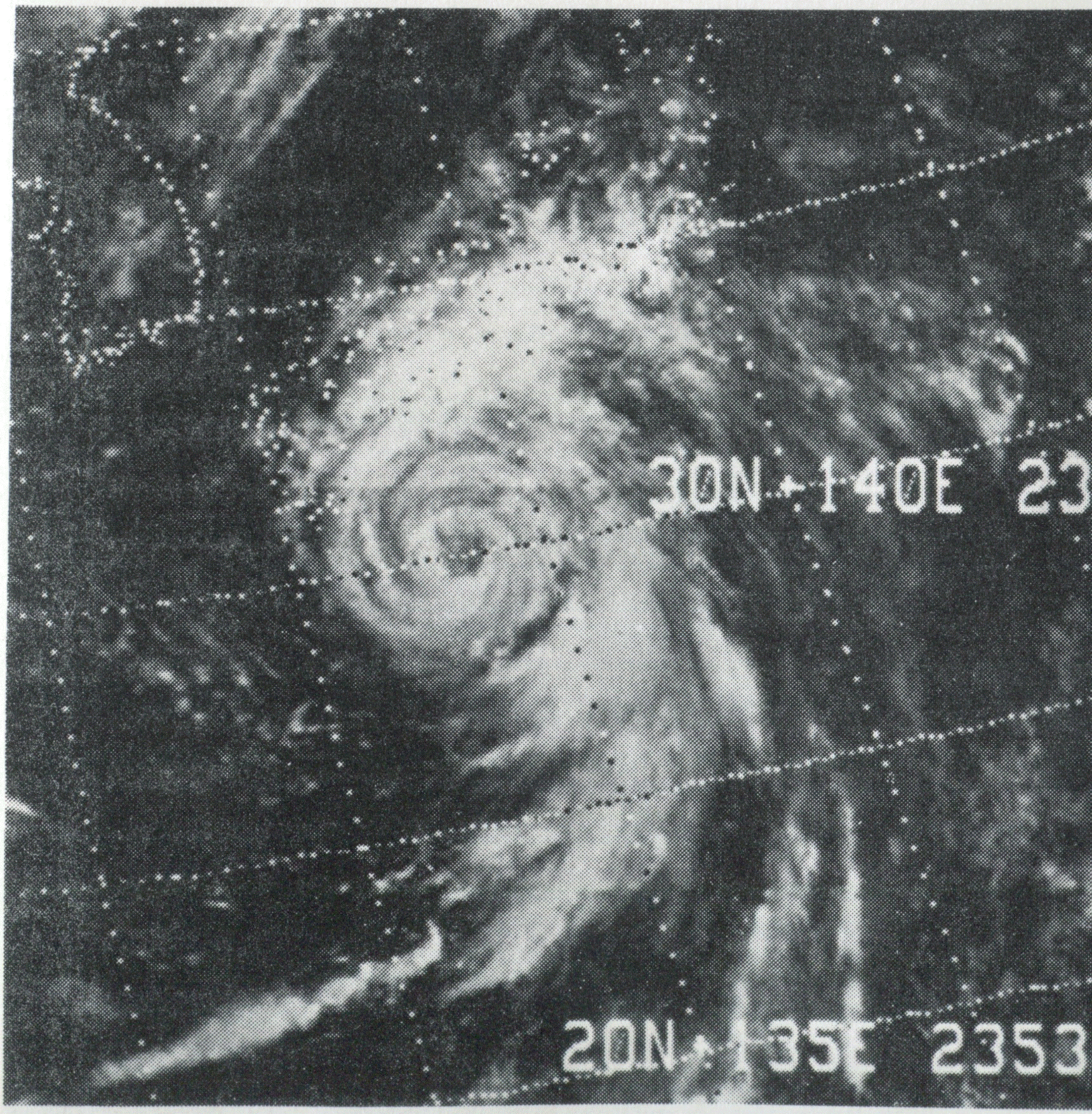 This NOAA satellite weather image of Typhoon Rita was taken on August 21, 1975